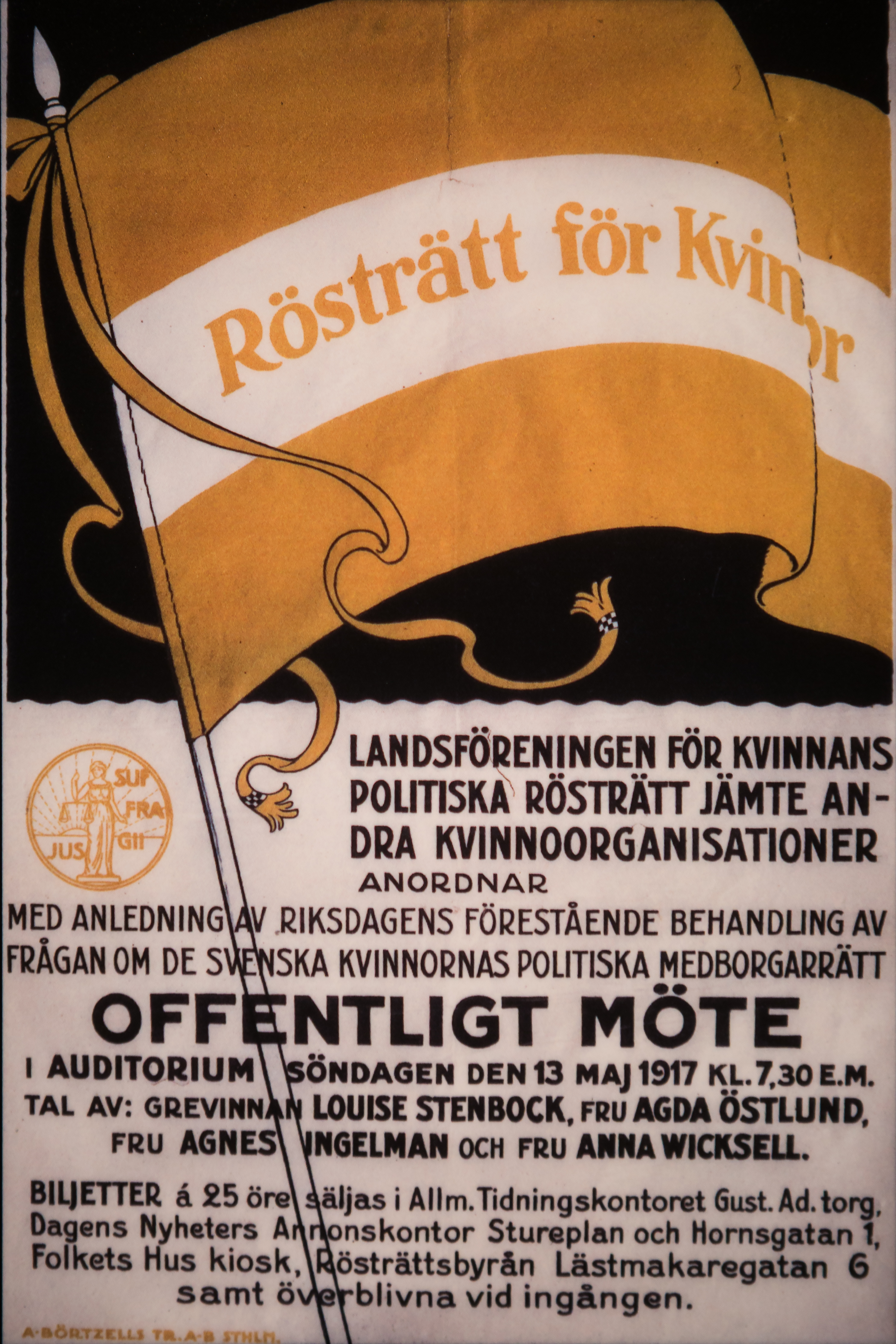 Poster inviting to a 1917 women's suffrage meeting in Sweden. The poster is on display at Karlskrona naval museum.